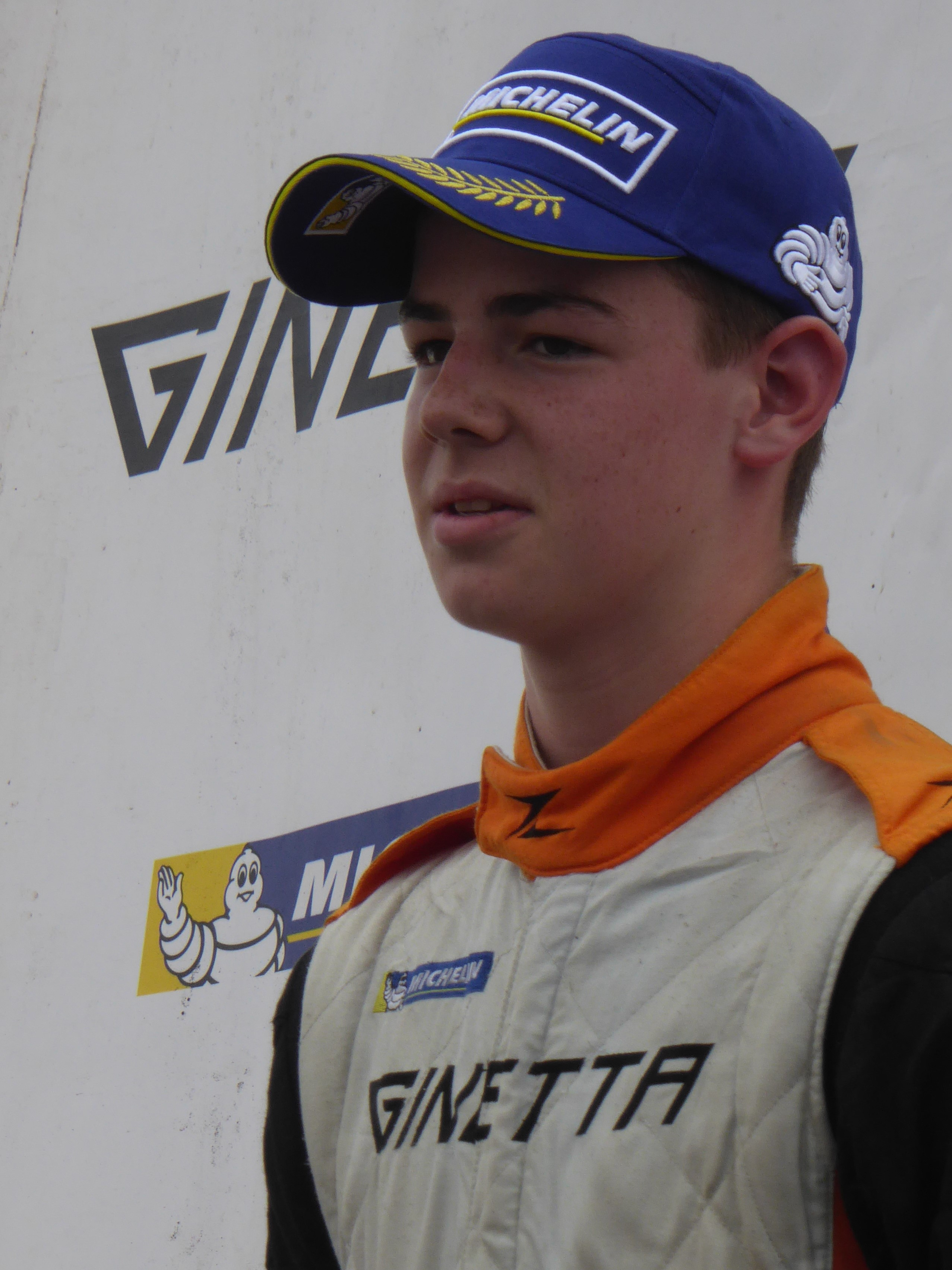 Tom Gamble (JHR Developments), who finished third in Race 2, at the Knockhill round of the 2017 Ginetta Junior Championship.